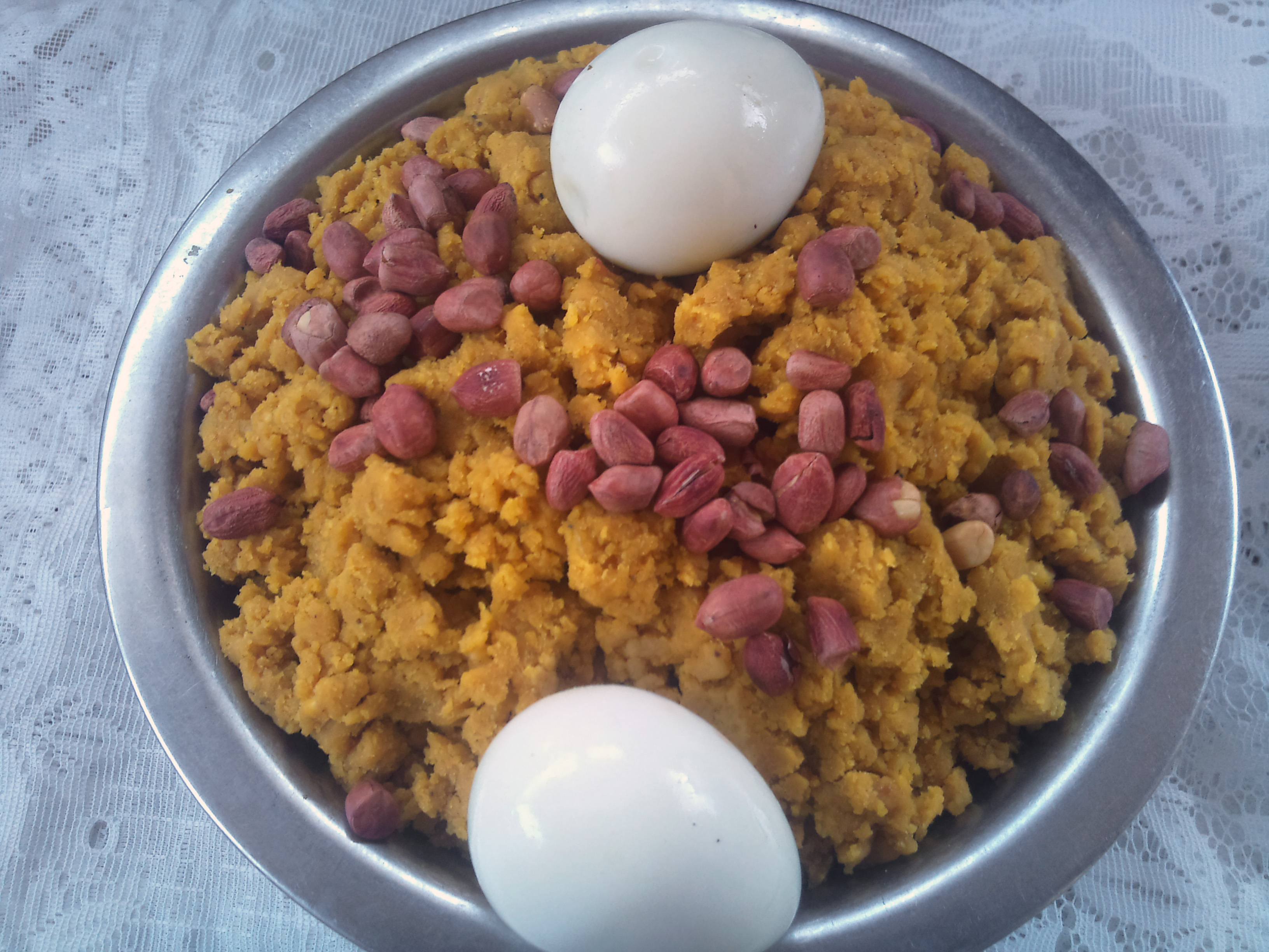 Etor is a dish by Akan ethnic group in Ghana. It is prepared with Plantain and or with yam boiled and mashed, and mixed with palm oil. Groundnuts (Peanuts)and Eggs provide are used to garnish the dish. In some cultures, it is prepared for people on their birthdays.